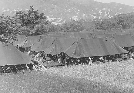 Japanese Refugee camp in Uijeongbu